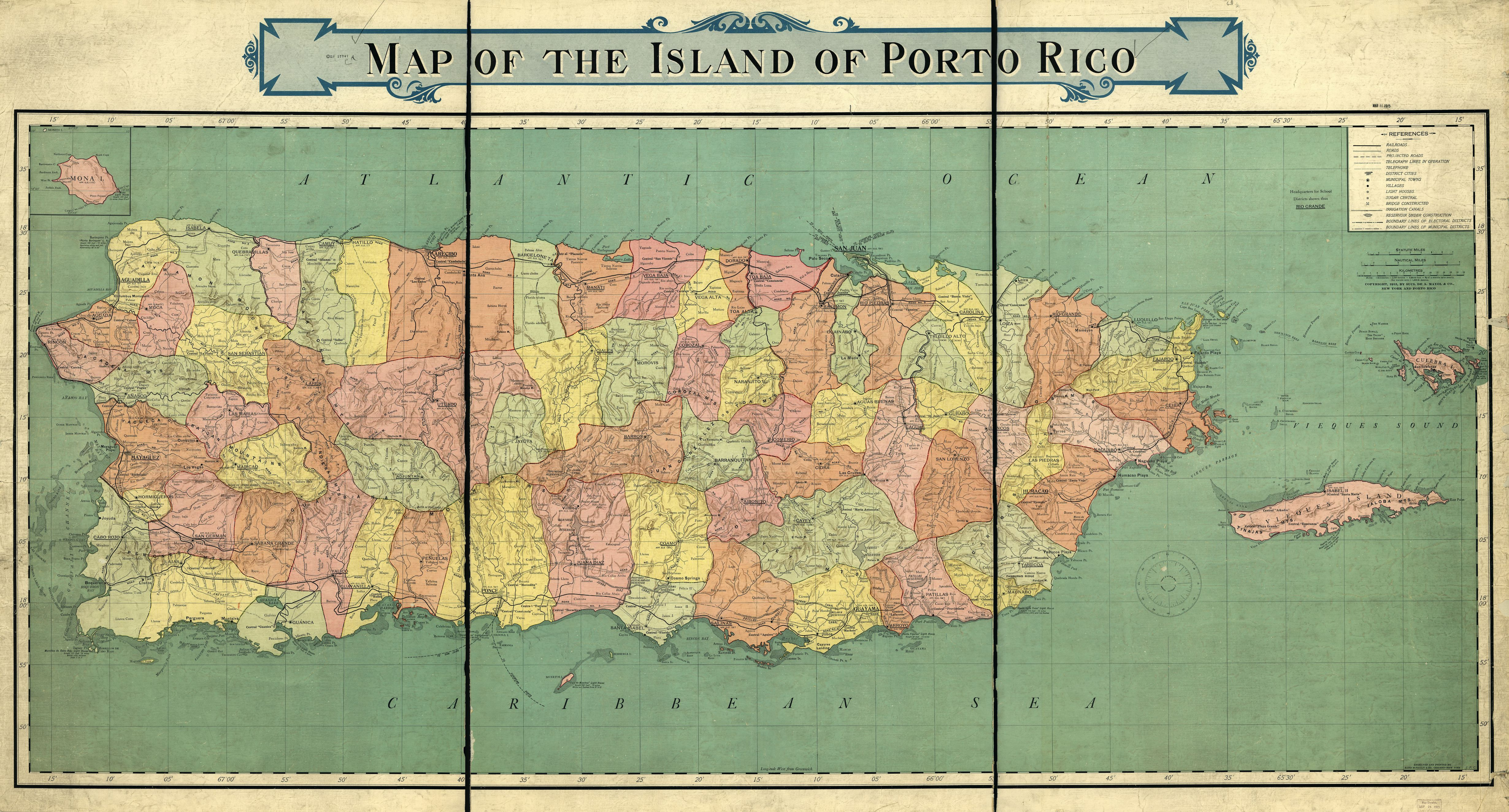 Map of Puerto Rico with subdivision in municipal districts